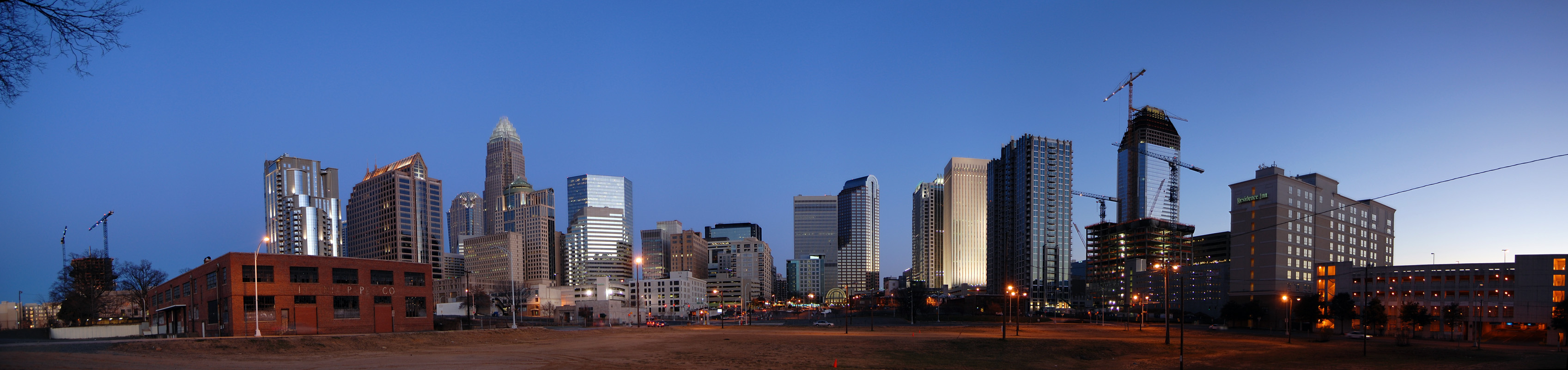 Panorama of Charlotte